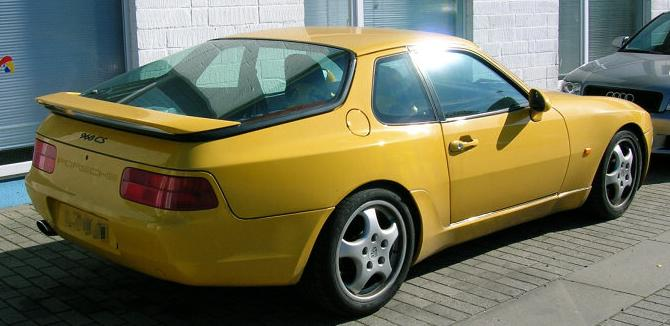 Porsche 968 CS, UK version (left-hand drive).